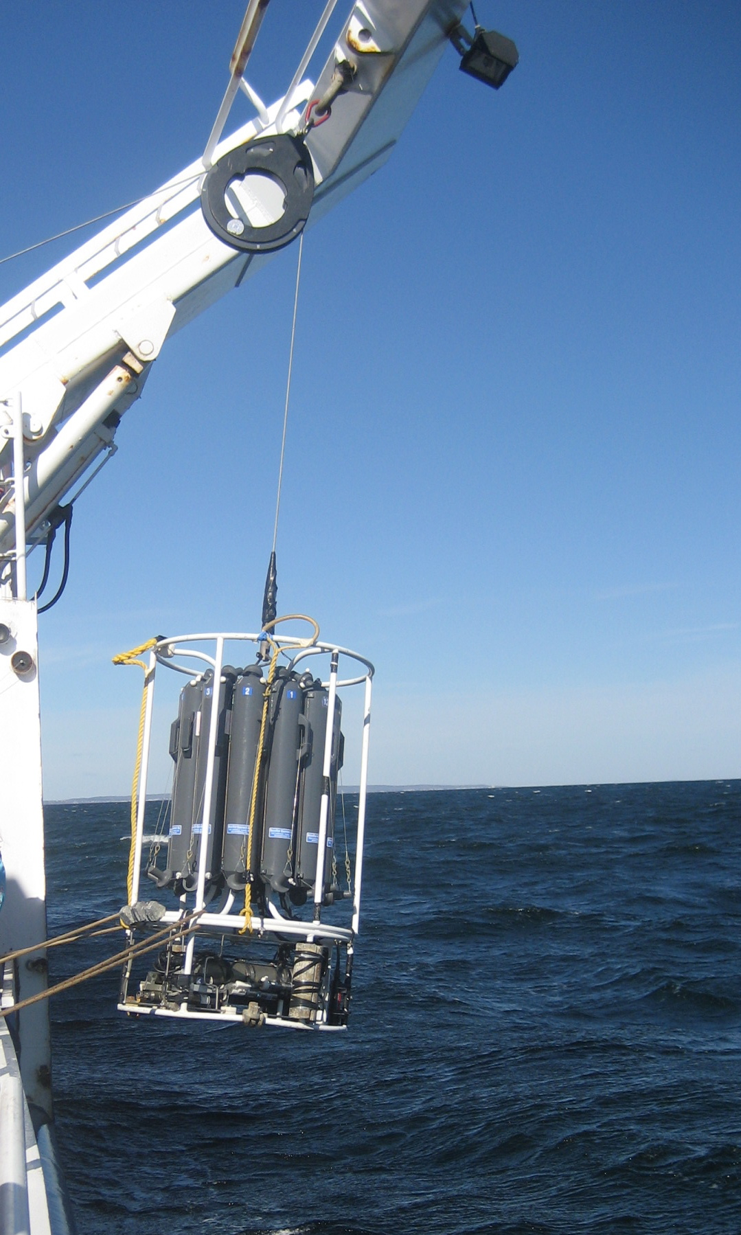 Deployment of CTD from a ship